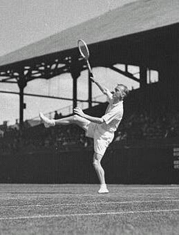 Harry Hopman